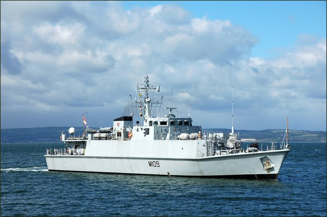 Arrival of HMS Bangor. The mine counter measures boat HMS "Bangor" approaching the entrance to Bangor harbour on her annual courtesy visit. Her draught is only 2 metres but her arrival took place just a few minutes before high water. This is her visit in 2006 211560. See also 514951.